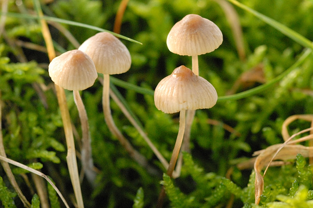 Mycena spec. from Commanster, Belgium. The determination of the species shown in this picture has been verified.